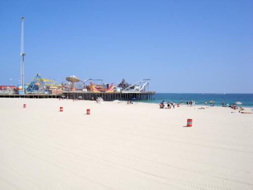 Seaside Heights &mdash Summer 2007. Casino Pier on the left.